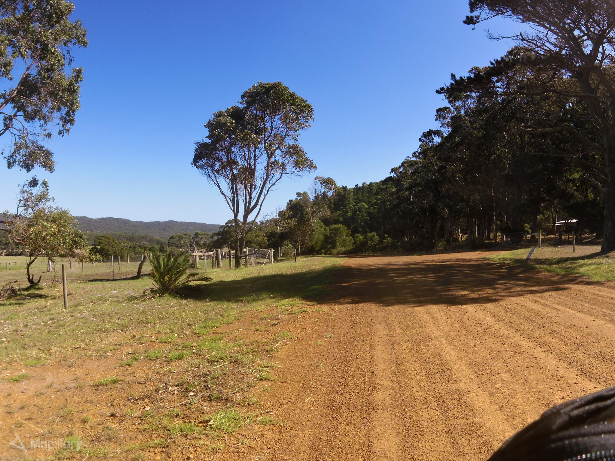 Lowlands WA